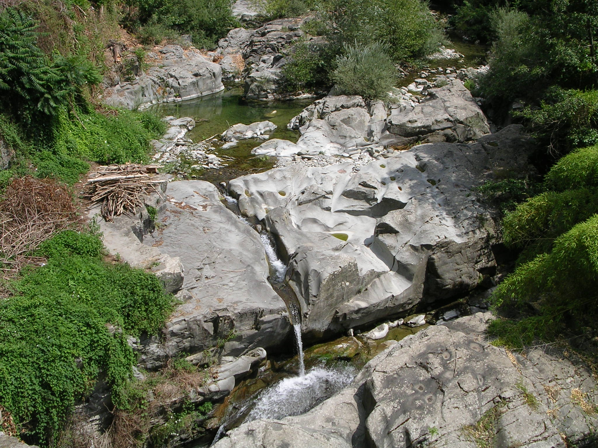 Bagnone river, affluent of Magra. Tuscany, Italy.